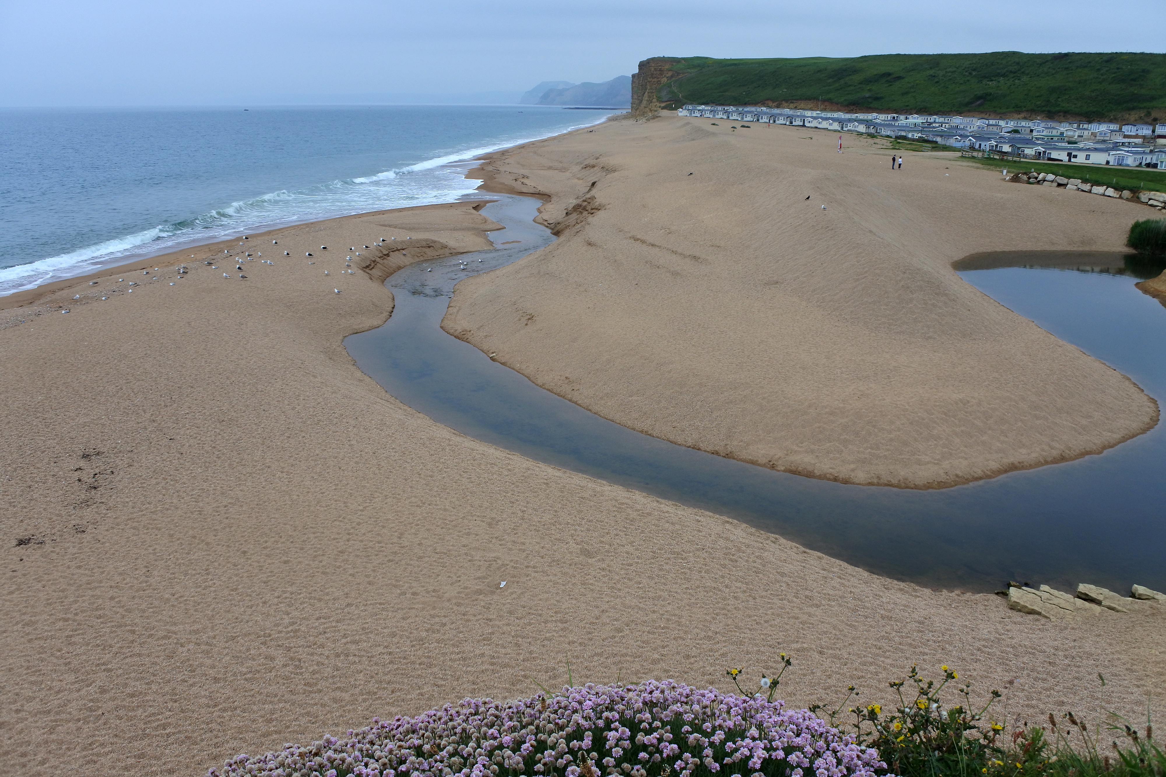 Mouth of the River Bride at Burton Bradstock, Dorset, England.